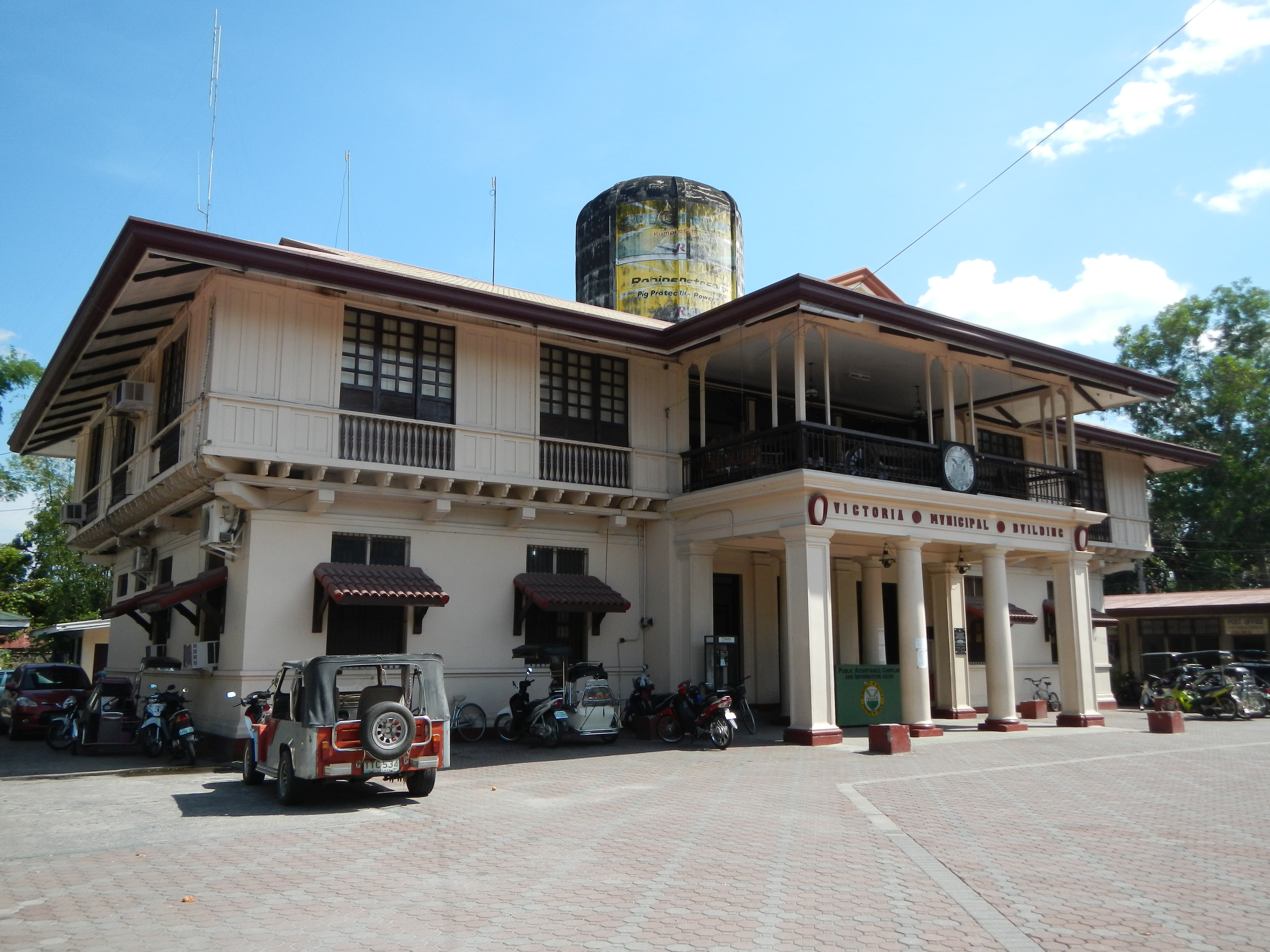 Town Hall of Victoria, Tarlac[1] is a second class municipality in the province of Tarlac, Philippines. According to the 2010 census, it has a population of 59,987 people. The municipality is located in the Province of Tarlac, geographically located in the central part of Luzon. It lies between 1”42’ north latitude and 120º35’ and 120”45 east longitude. It is bounded by Tarlac City, municipalities of Pura Gerona, La Paz and to the east by the Province of Nueva Ecija. The municipality has a total land area of 11,150 hectares, of which a large portion is used for agricultural activities.New Website [2]Land Area: 111.51 km² ZIP Code: 2313 Coordinates: 15°34'34"N 120°41'25"E[3] This place is situated in Tarlac, Region 3, Philippines, its geographical coordinates are 15° 34' 39" North, 120° 40' 56" East and its original name (with diacritics) is Victoria.[4]PNOC-EDC to drill more wells in Victoria, Tarlac March 20, 2002 [5]VICTORIA, FIRST TO ESTABLISH TSU – CAMPUS OFF – TARLAC CITY ----- By 1850 there were already settled communities in what would later be called the town of Victoria. The biggest was in Namitinan (now in Sitio in Brgy. Canarem) which was of Ilocano settlers who decided to live close to Canarum Lake. The Kapampangan had gone as far as Baculong and Maluid. Like the Ilocano, they too were in search of land to till. There was one other community in Palacpalac. The barrio was named after a tree which sap is utilized to make houses shiny. On March 28, 1855, Superior Governor General Miguel Crespo created the town of Victoria by virtue of a Superior Decree. There was no Poblacion to speak of then. Read more:[6]